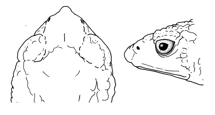 Head shape in dorsal and lateral views of Osornophryne angel male, QCAZ 40048.